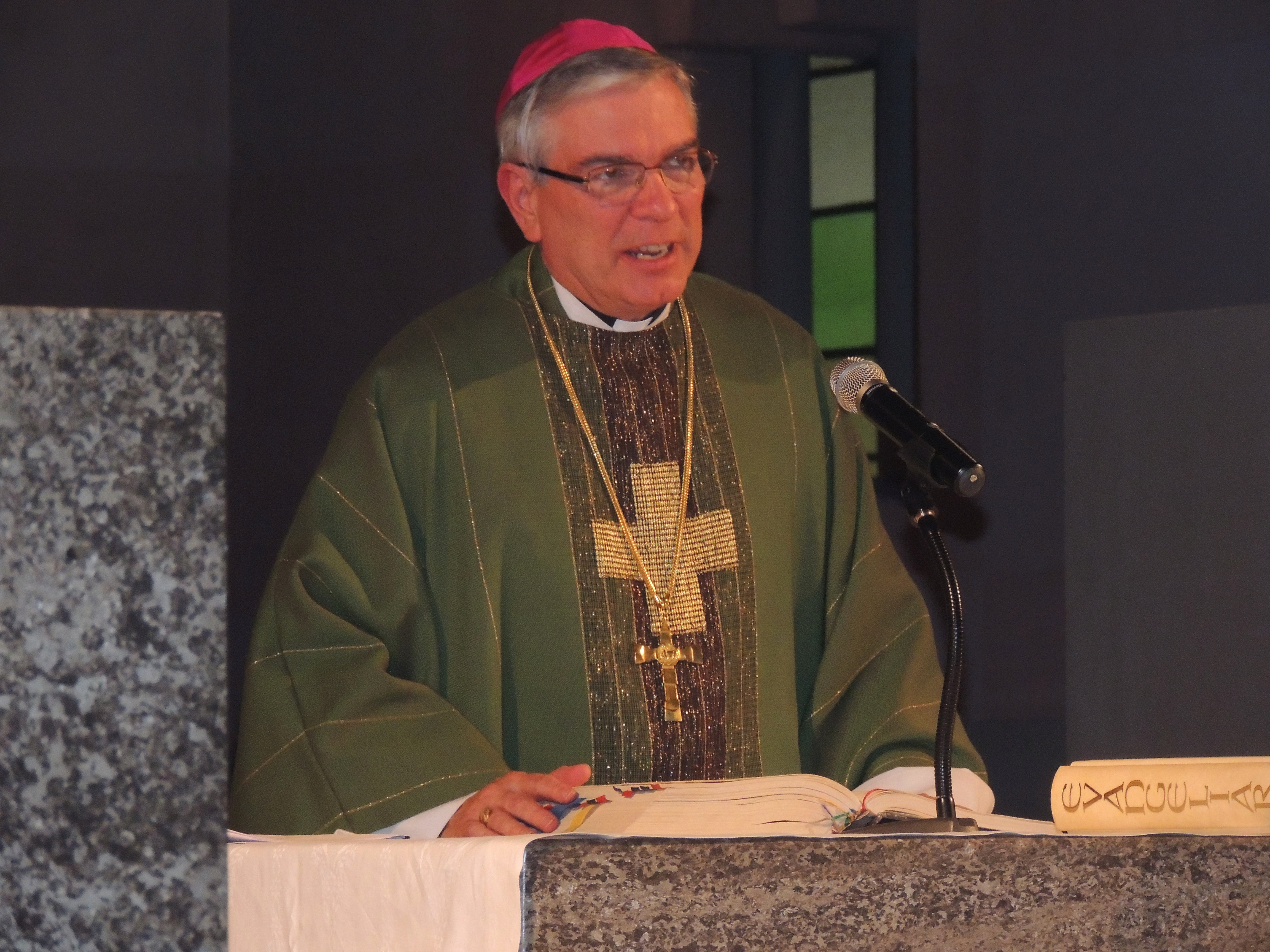 Thomas Löhr, Auxiliary Bishop of Limburg in the Holy Cross Church in Frankfurt am Main-Bornheim